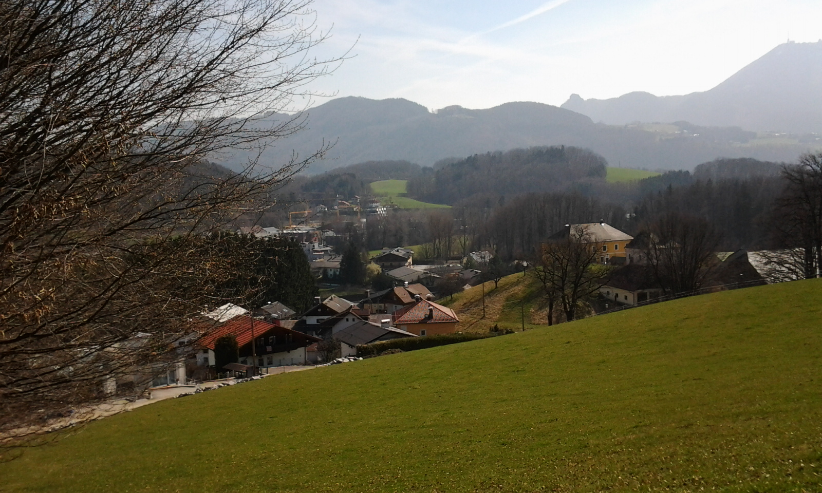 hamlet Radeck in the east of Plainberg mountain, muicipality of Bergheim, Salzburg state, Austria